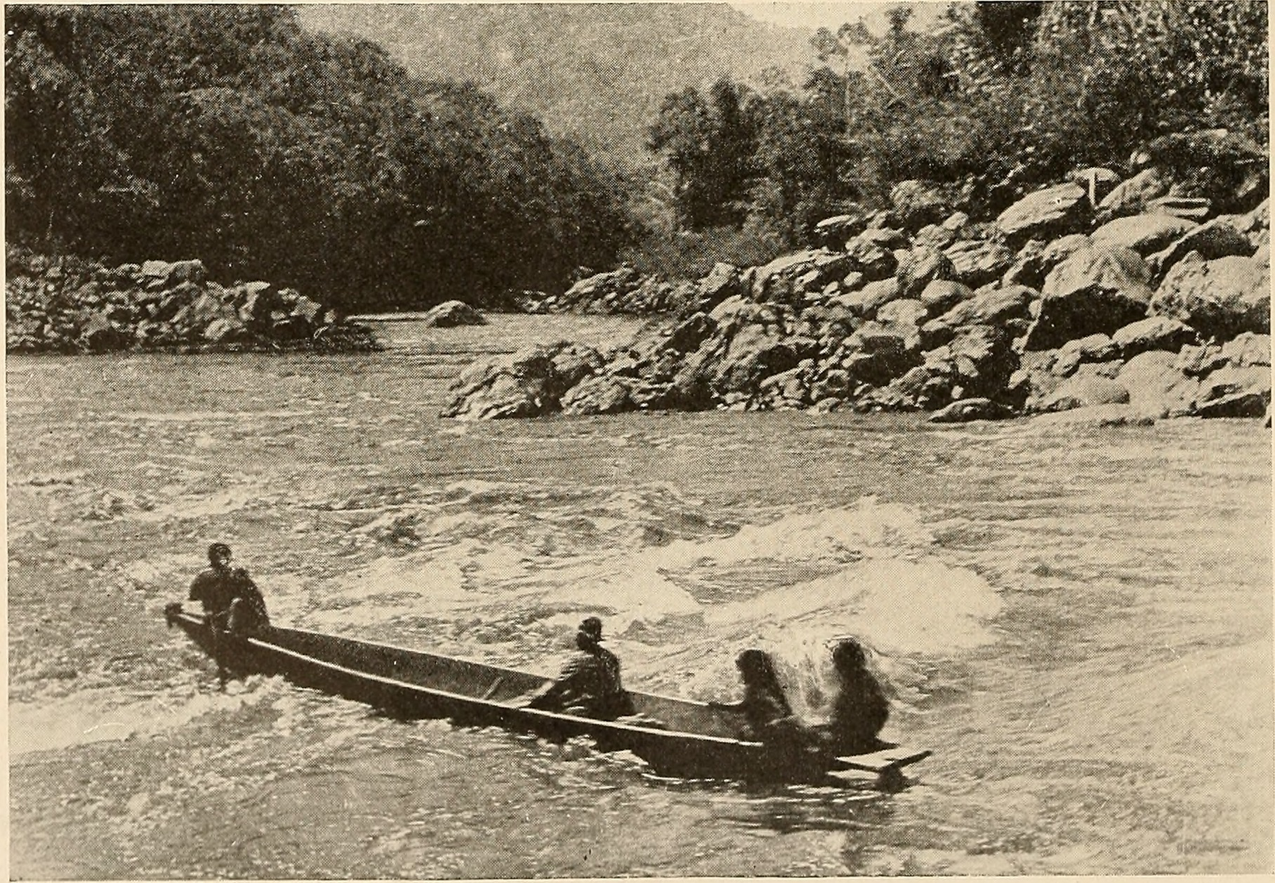 Title: The Andes of southern Peru, geographical reconnaissance along the seventy-third meridian Year: 1916 (1910s) Authors: Bowman, Isaiah, 1878-1950 American Geographical Society of New York Subjects: Yale Peruvian Expedition (1911) Physical geography Geology Human geography Publisher: (New York) Pub. for the American Geographical Society of New York by H. Holt and Company Text Appearing Before Image: Fig. 11. Text Appearing After Image: Fig. 12. Fig. 11—A temporary shelter-hut on a sand-bar near the great bend of the Uru-bamba (see map, Fig. 8). The Machiganga Indians use these cane shelters during thefishing season, when the river is low. Fig. 12—Thirty-foot canoe in a rapid above Pongo de Mainique. THE RAPIDS AND CANYONS OF THE URUBAMBA 11 the river is a sugar plantation, whose owner lives in the coolermountains, a days journey away; on the right bank is a smallclearing planted to sugar cane and yuca, and on the edge of it isa reed hut sheltering three inhabitants, the total population ofRosalina. The owner asked our destination, and to our reply thatwe should start in a few days for Pongo de Mainique he offeredtwo serious objections. No one thought of arranging so difficulta journey in less than a month, for canoe and Indians were diffi-cult to find, and the river trip was dangerous. Clearly, to startwithout the loss of precious time would require unusual exertion.We immediately despatched an Indian messenger